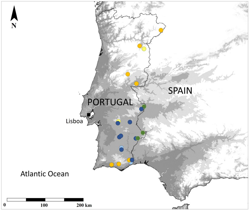 Occurence map of all records belonging to the three mantid species in Portugal. Light-coloured circles correspond to formerly published records while the dark are new records. Green circles: Sphodromantis viridis; Blue circles: Apteromantis aptera; Yellow circles: Perlamantis allibertii.